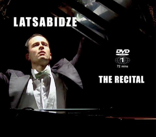 Giorgi Latsabidze DVD cover